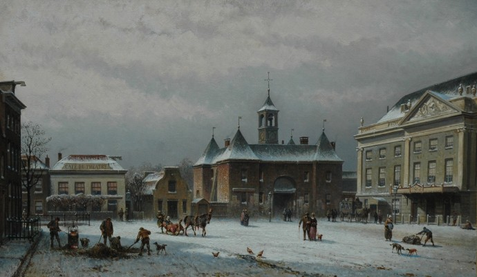 Painting by Eduard Hilverdink, Snowy Leidsplein, Amsterdam. Oil on canvas.